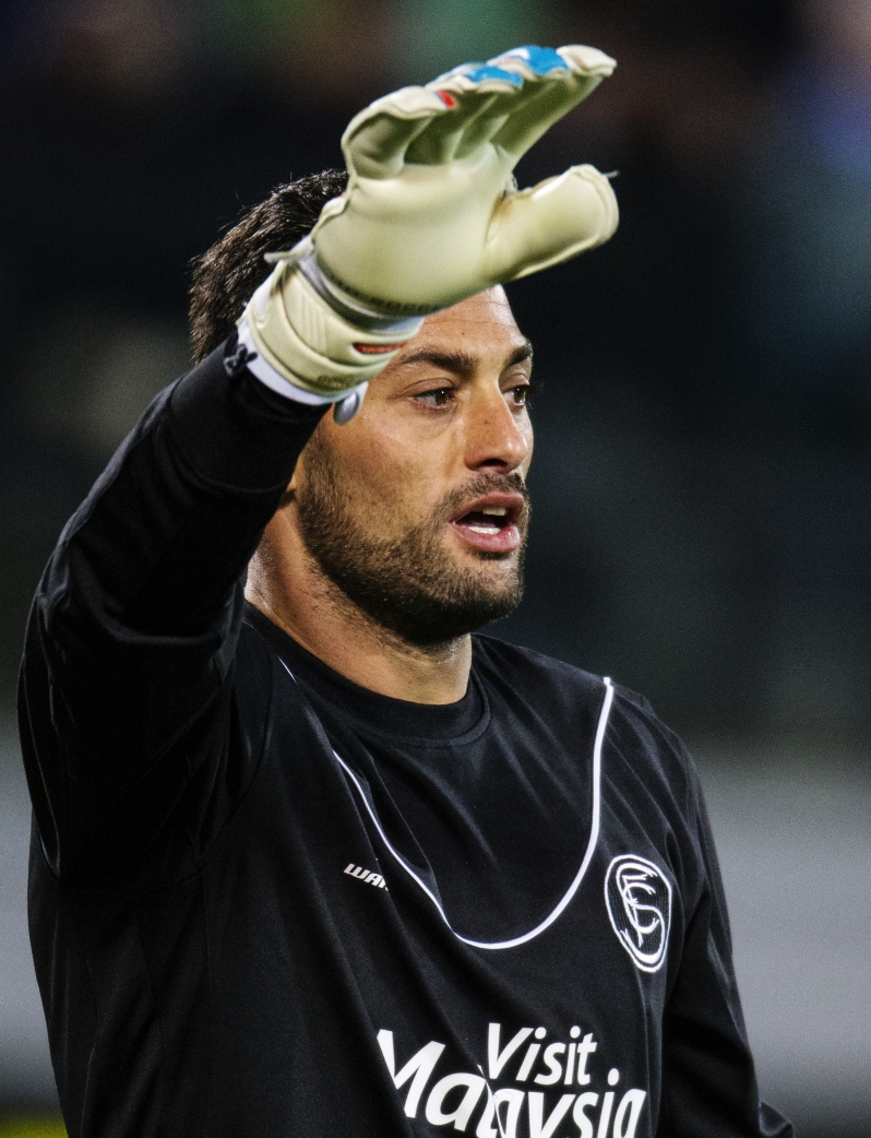 António Alberto Bastos (Beto)